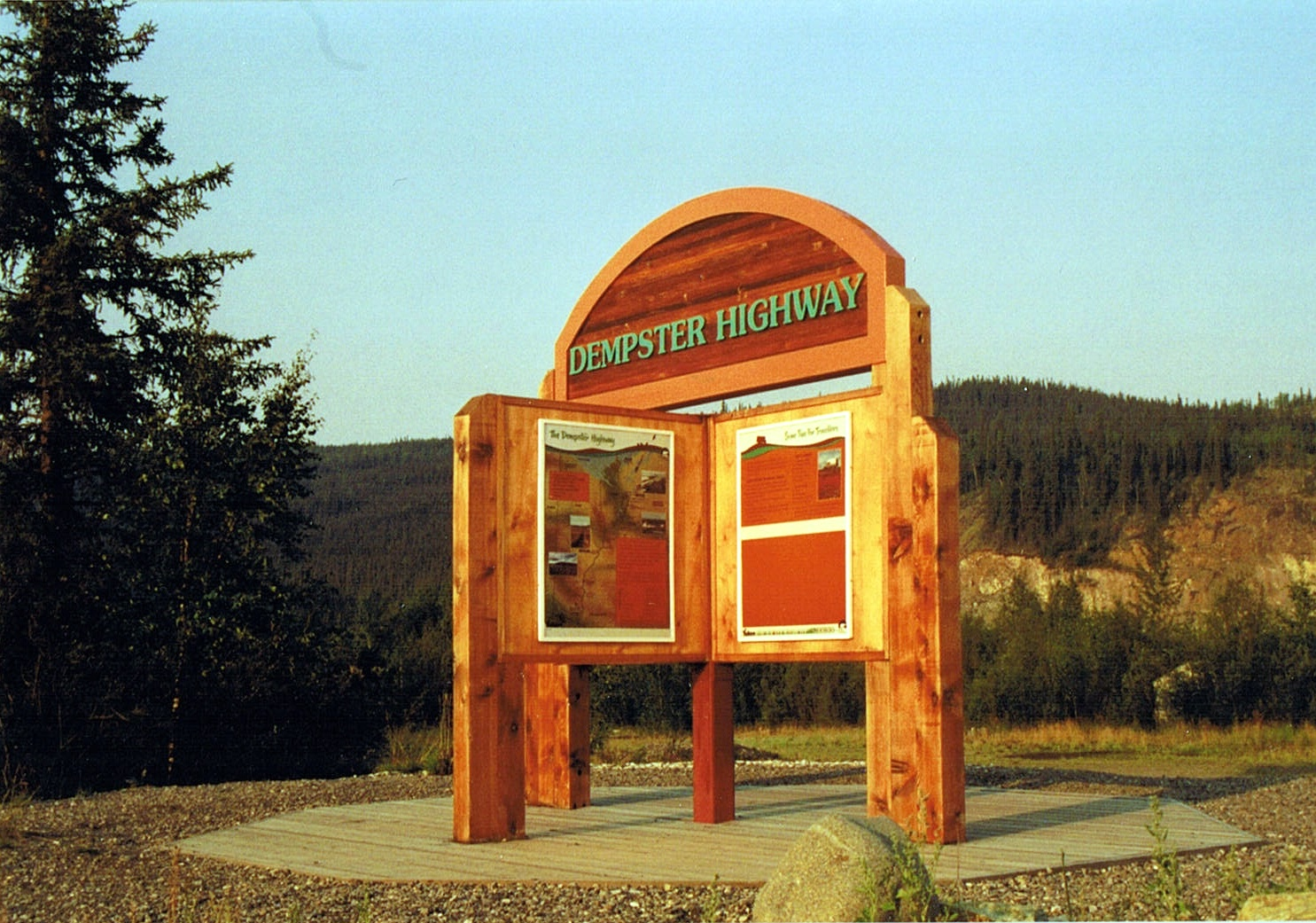 Dempster Highway scanned image